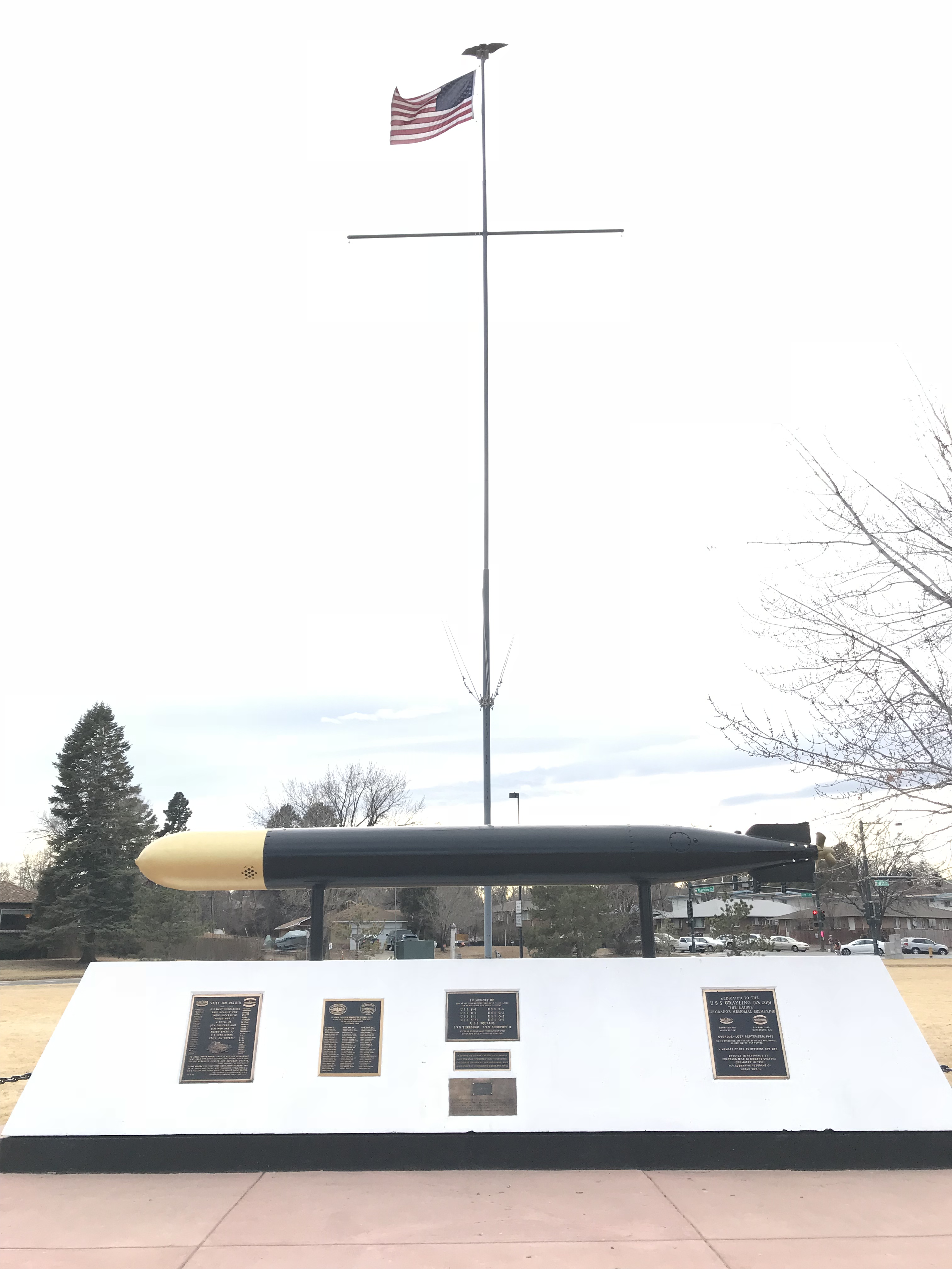 USS Grayling (SS-209) Memorials